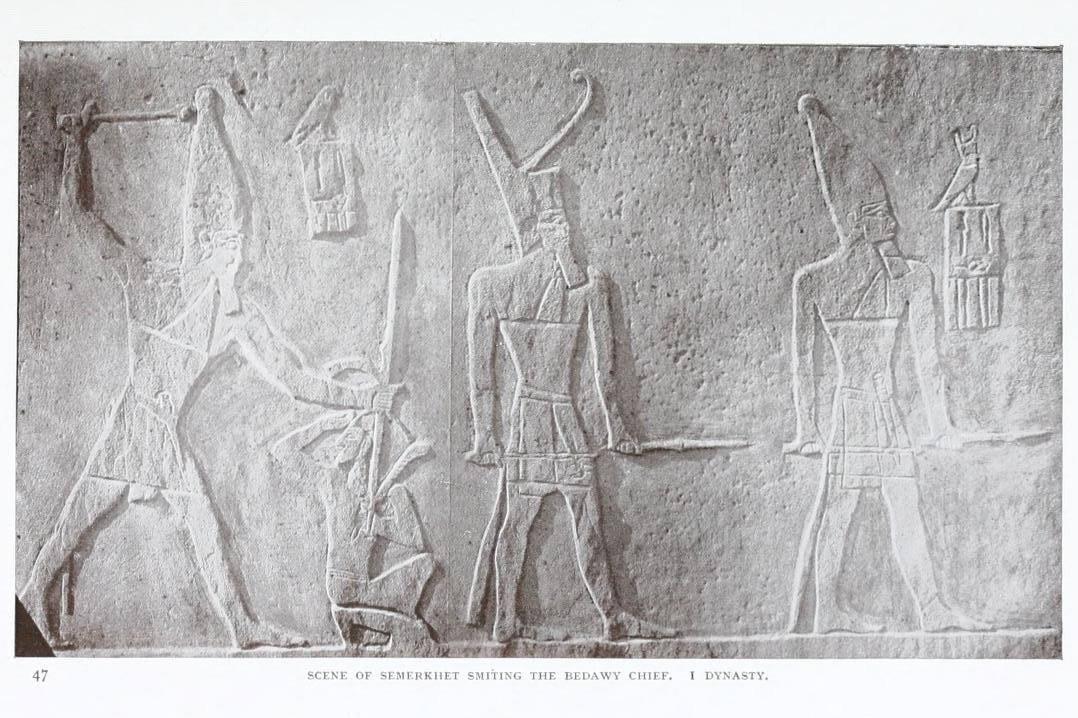 Relief depicting pharaoh Sekhemkhet: smiting a foreign chief (left); as King of Lower Egypt (center); as King of Upper Egypt (right). From Wadi Maghara, 3rd Dynasty, Old Kingdom.